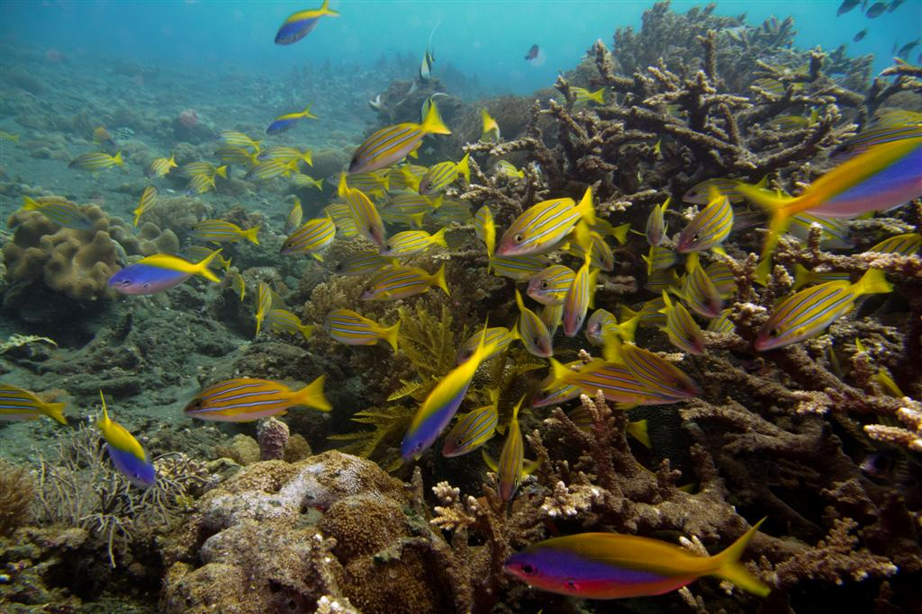 Fusiliers